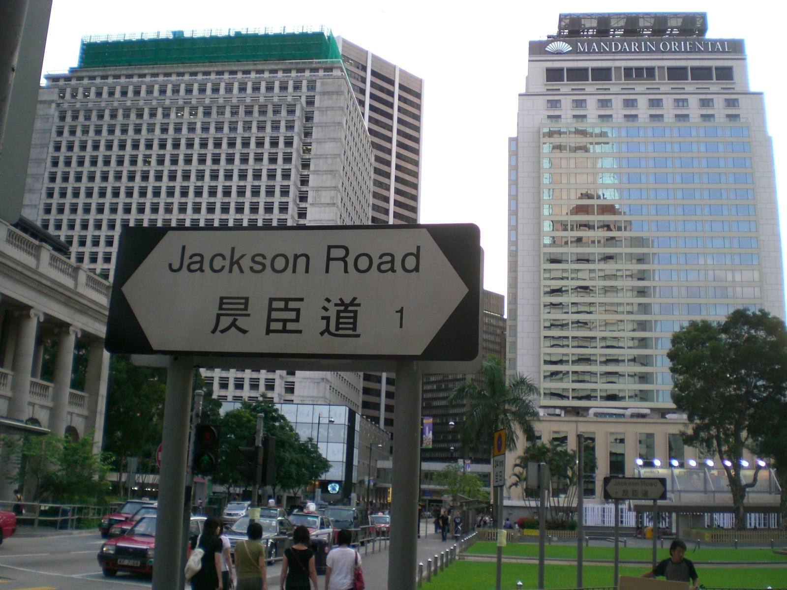 Mandarin Oriental, Central, Hong Kong Author= SHOLYWOD